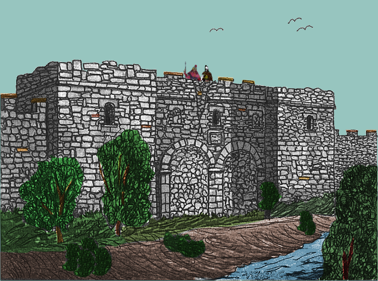 Artist's impression of the west gate of Aesica, state in the 4th century AD., View from northwest.